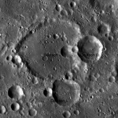 Image LOV-181-M , LROC